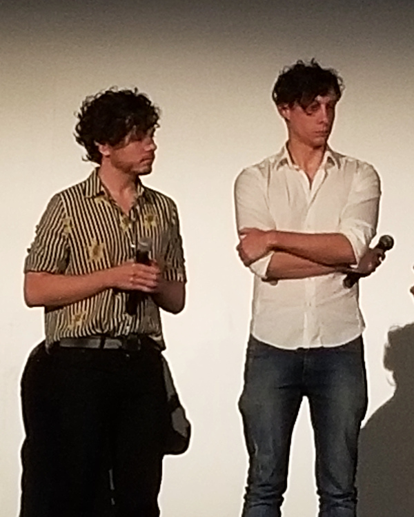 Filipe Matzembacher and Marcio Reolon at a Q&A session for Hard Paint at Frameline at the Castro Theatre in San Francisco, California, United States